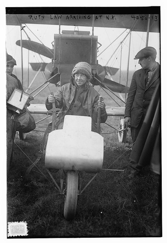 Summary: Photograph shows aviator Ruth Law arriving at Governor's Island, New York after her flight from Chicago, November 20, 1916. (Source: Flickr Commons project, 2014)